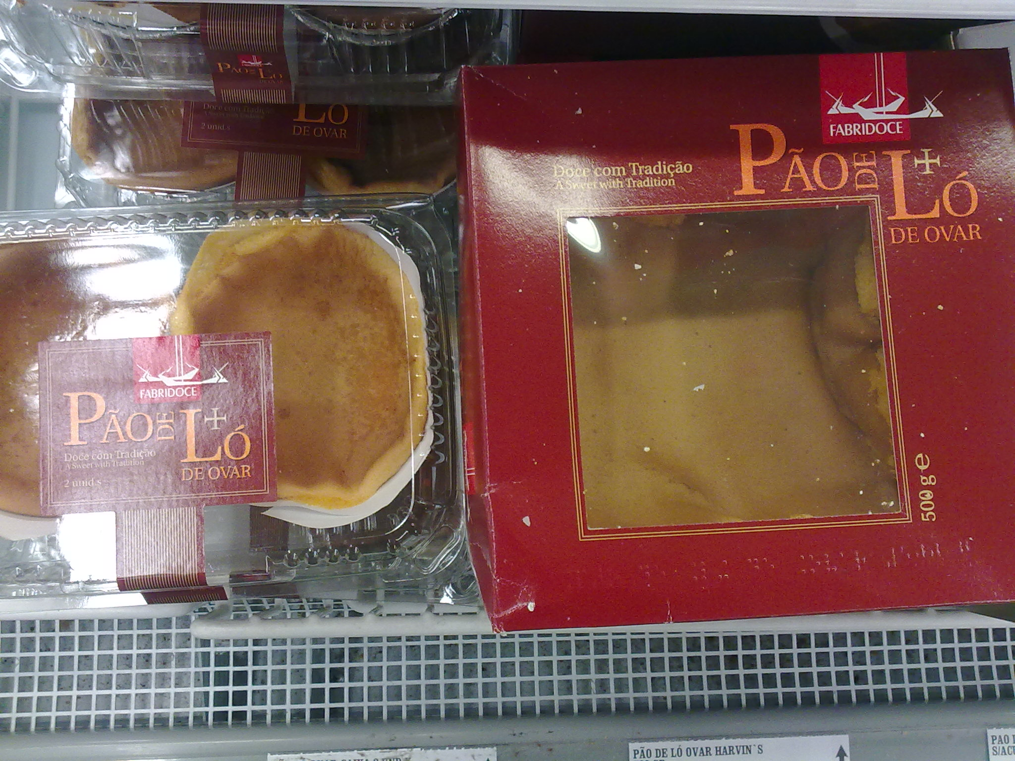 Pão-de-ló de Ovar, a typical portuguese sponge cake.